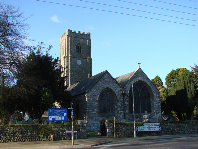 St Gomonda's Church , Roche